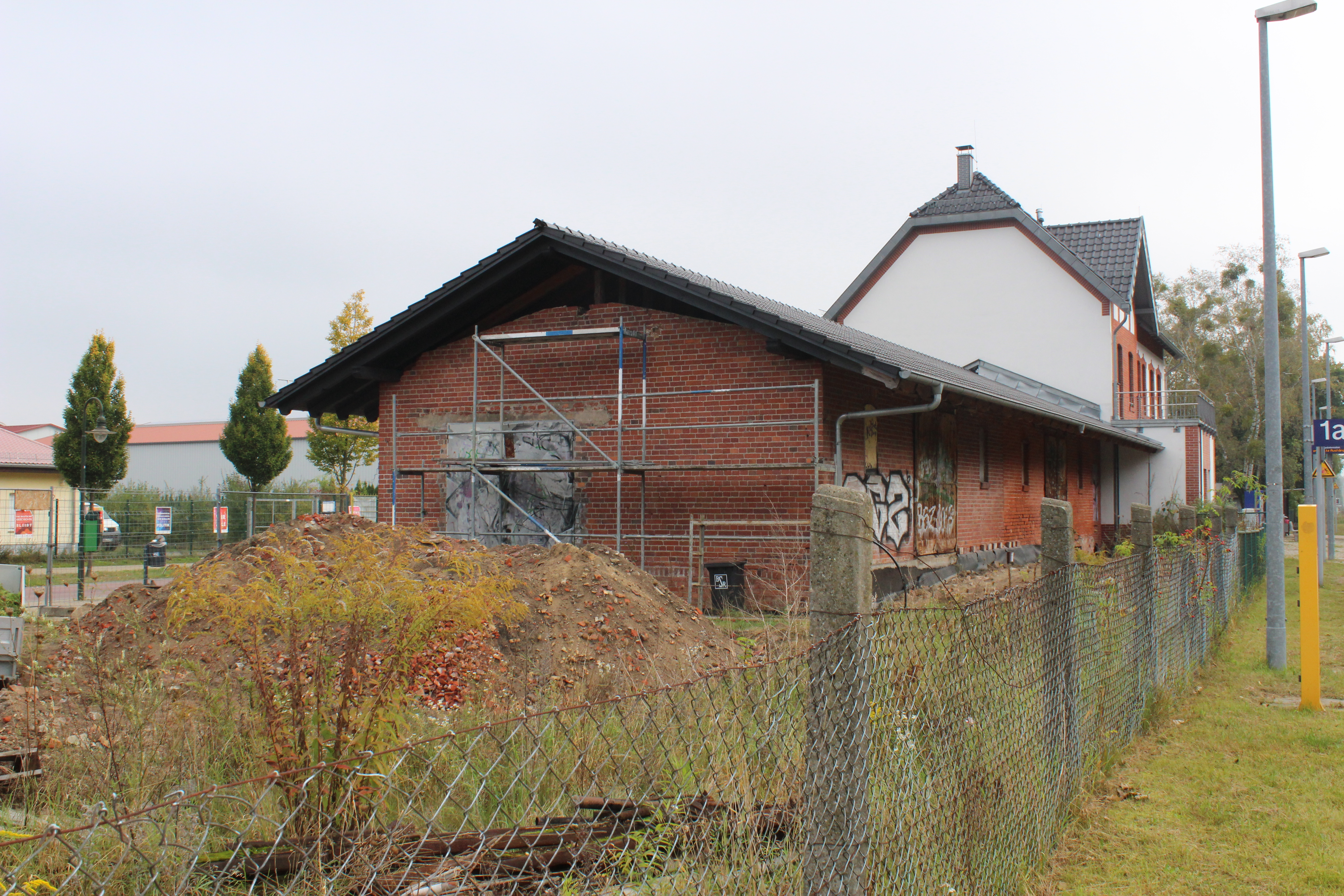 train station Rehfelde, station building and goods shed